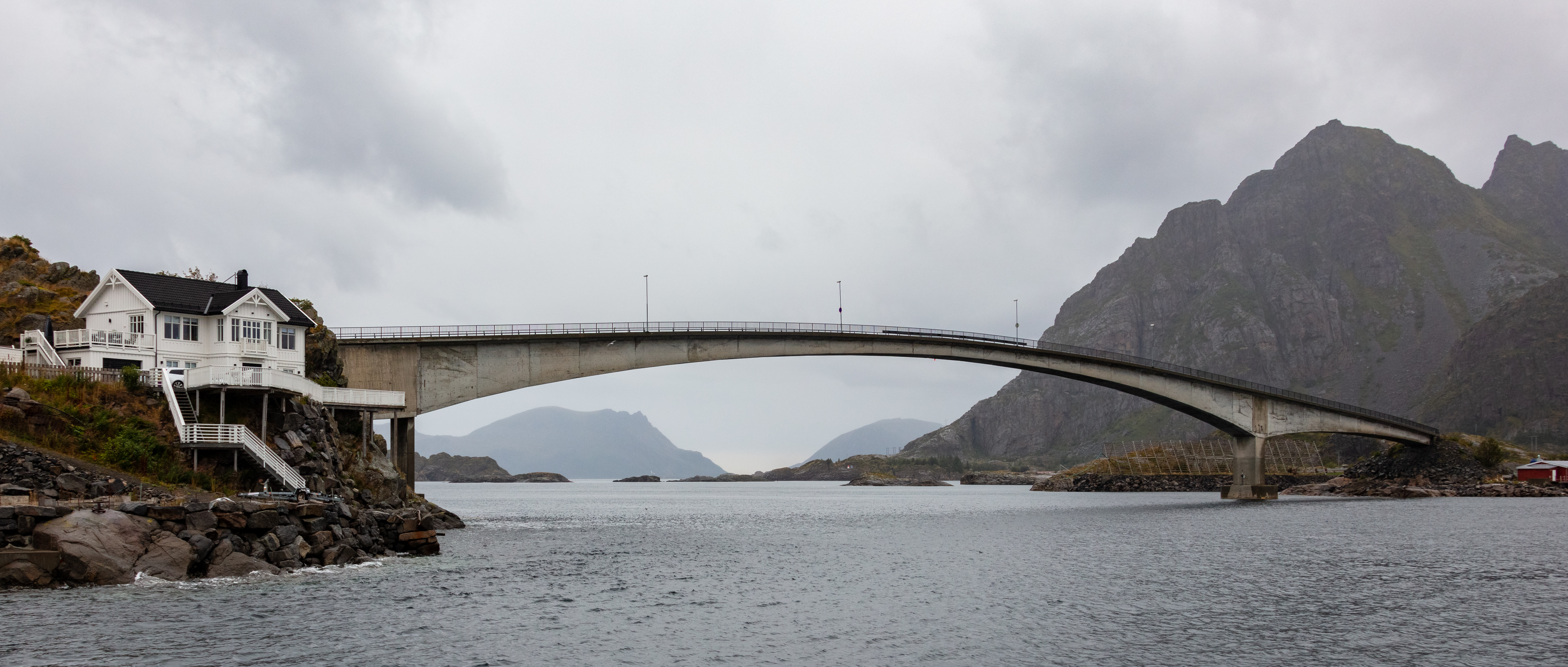 Svolvær, Lofoten, Norway